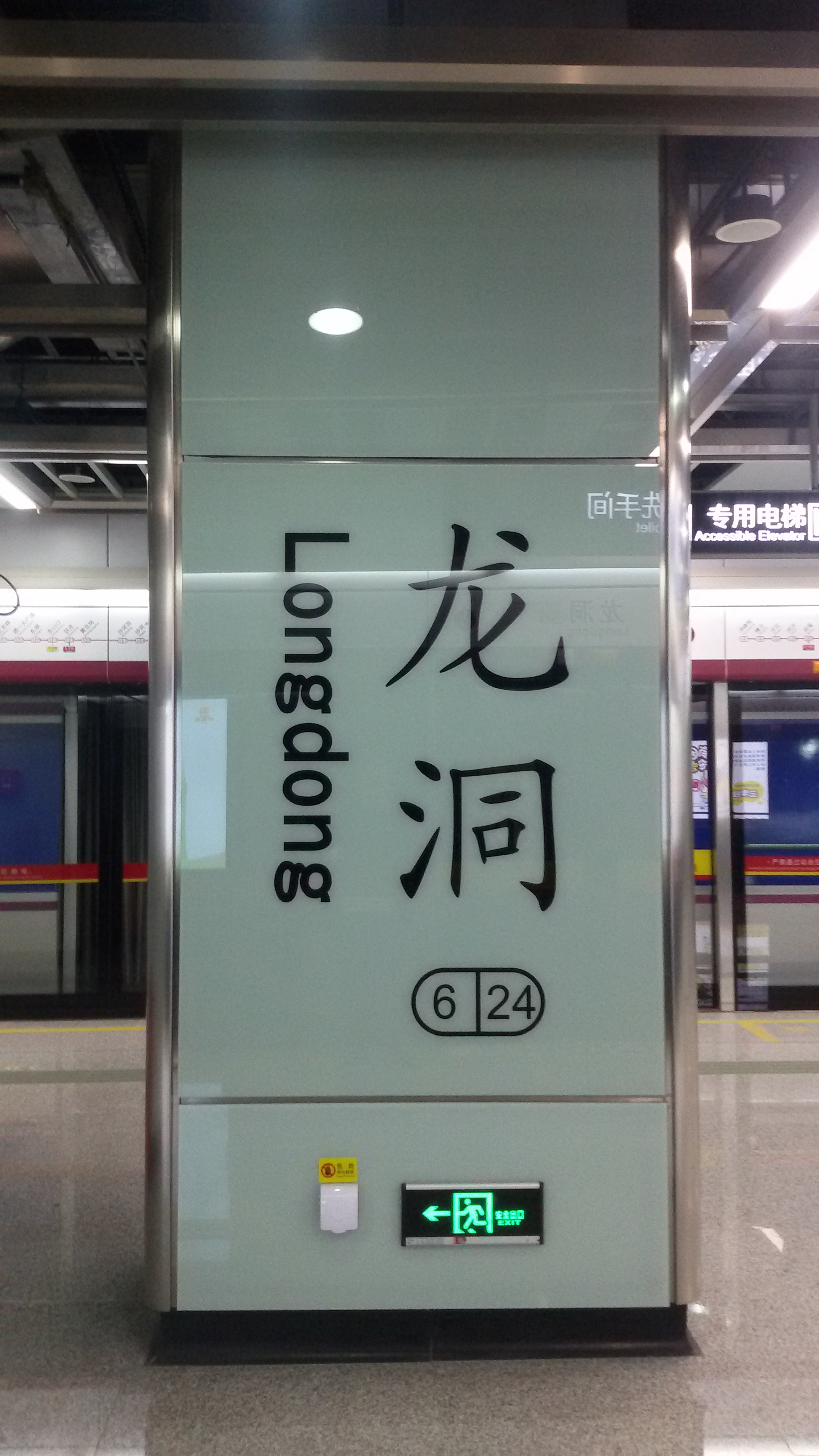 WORD on PILLAR for Longdong Station in Guangzhou Metro